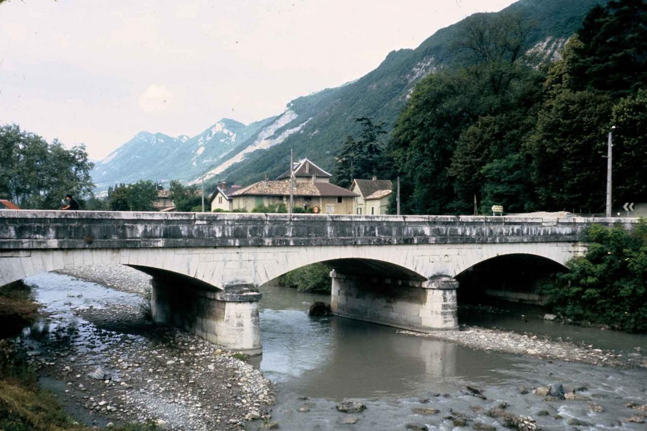 Stone bridge of Vif, Isère (France)